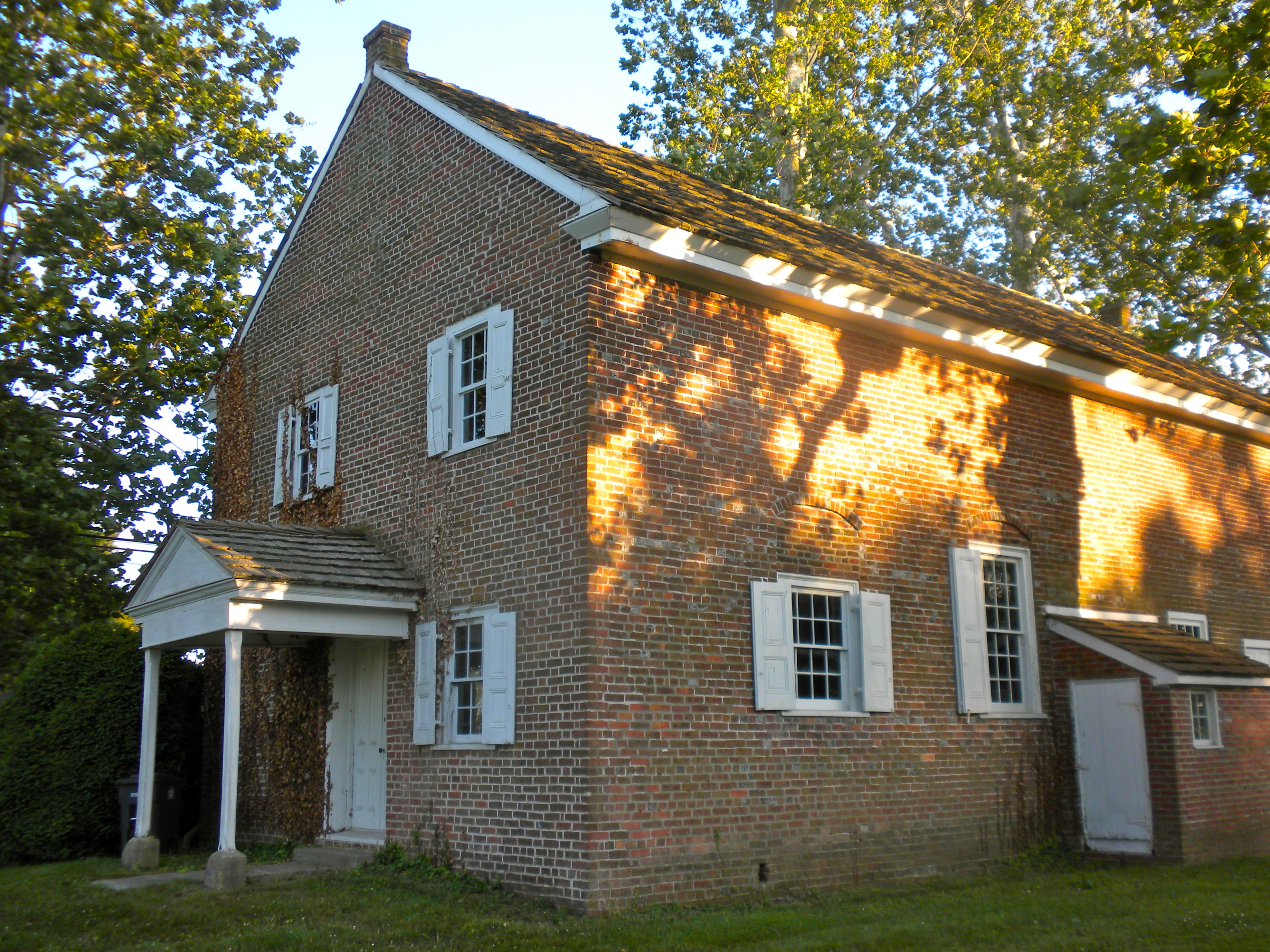 Alloways Creek Friends Meetinghouse on NRHP since December 18, 2003. On Buttonwood Ave, 150 ft. W of Main St. in Hancock's Bridge, New Jersey.